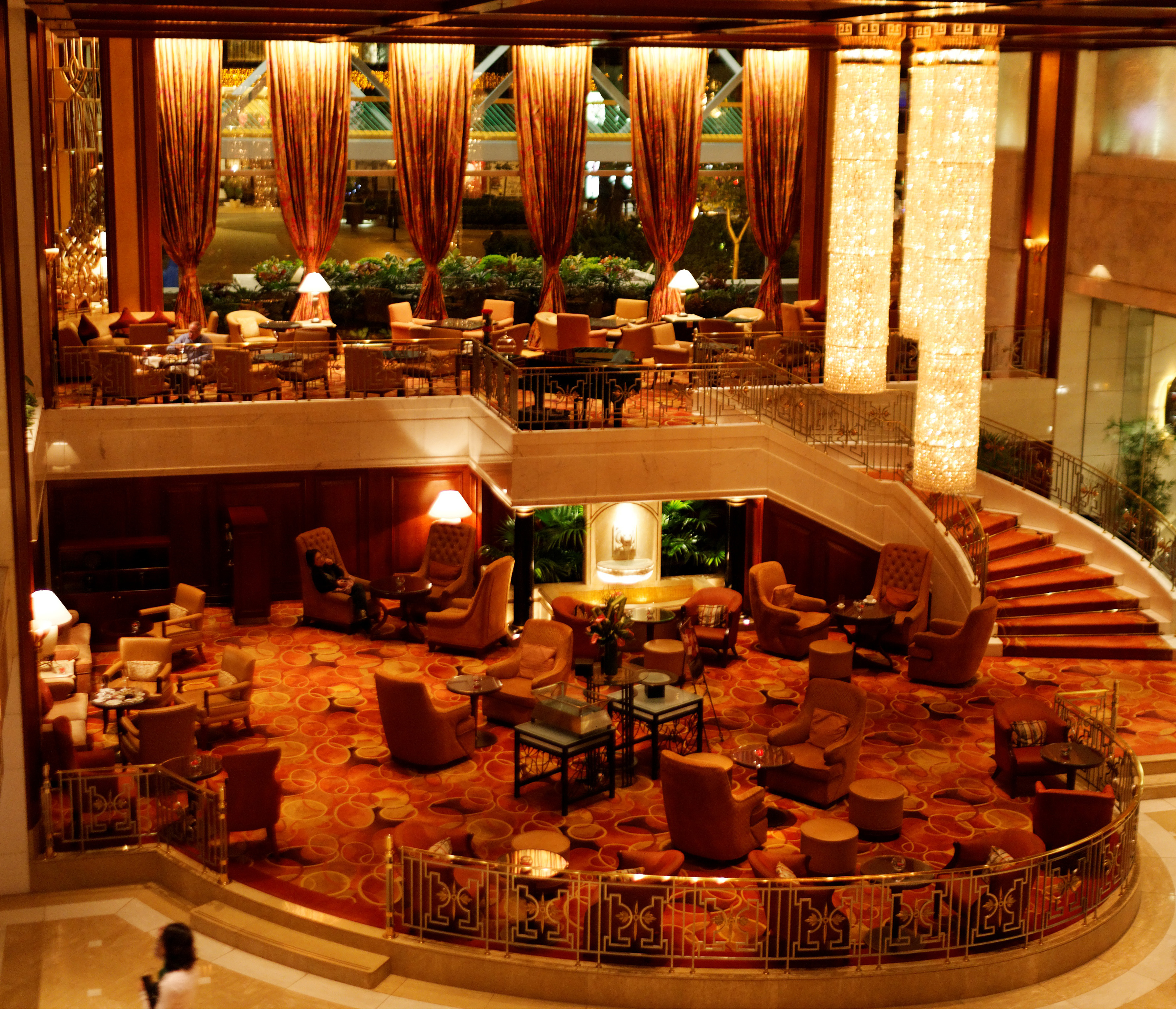 InterContinental Grand Stanford Hong Kong 海景嘉福酒店